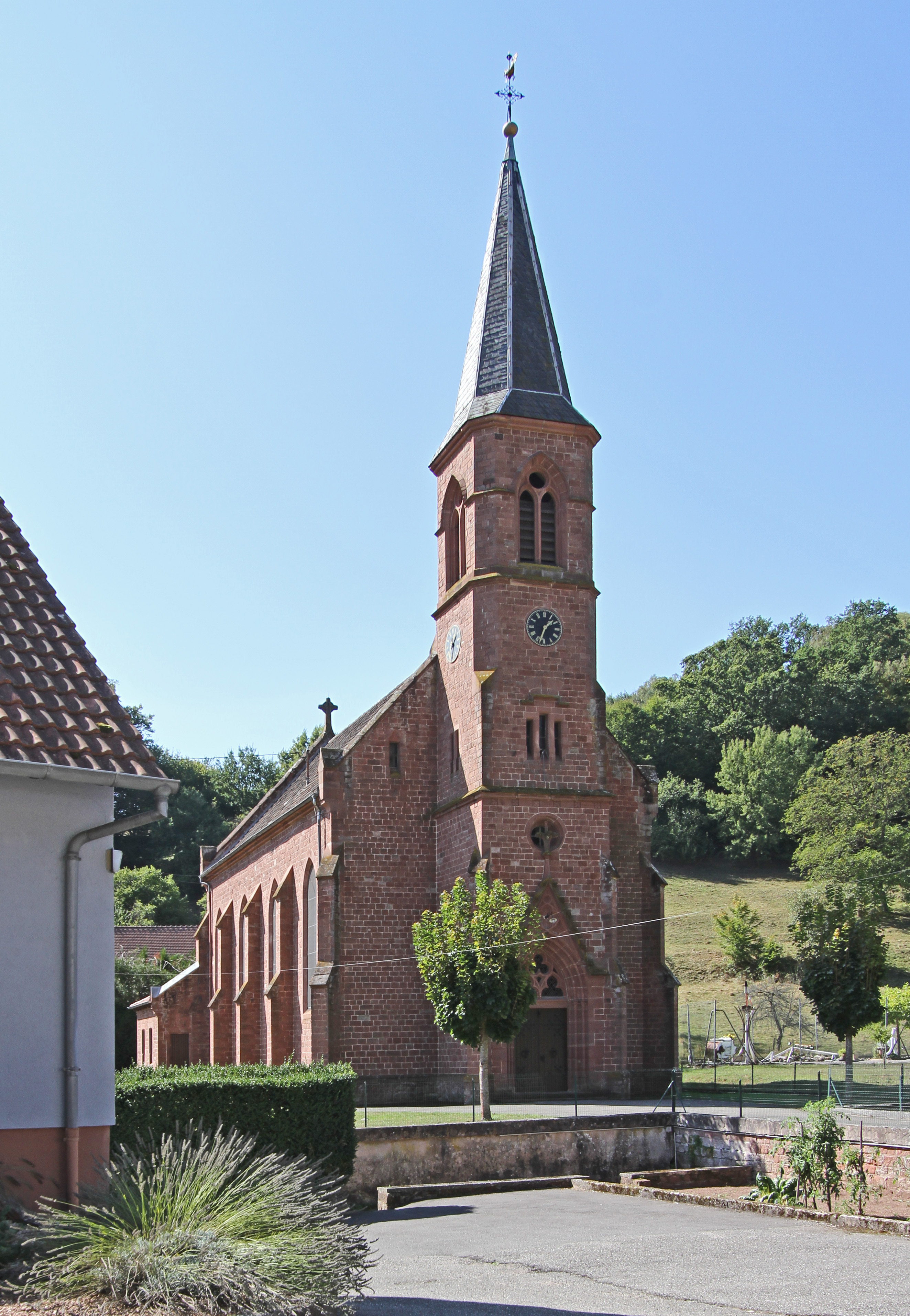 Church of Saint Gallus in Niedersteinbach.